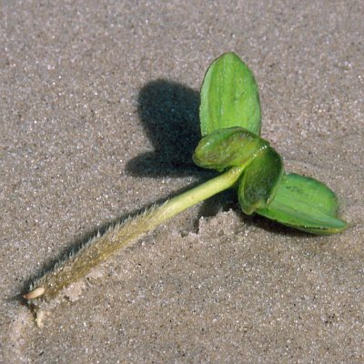 Propagule of Avicennia at Salvaterra beach, Marajó, Pará, North Brazil